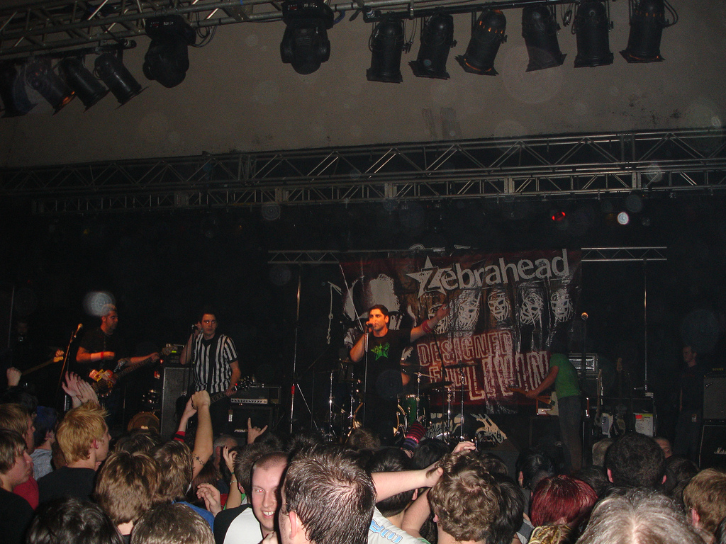 pop-punk-band Zebrahead in 2006